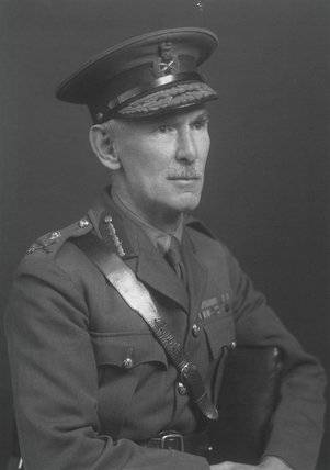 Major General Charles W Gwynn in army uniform